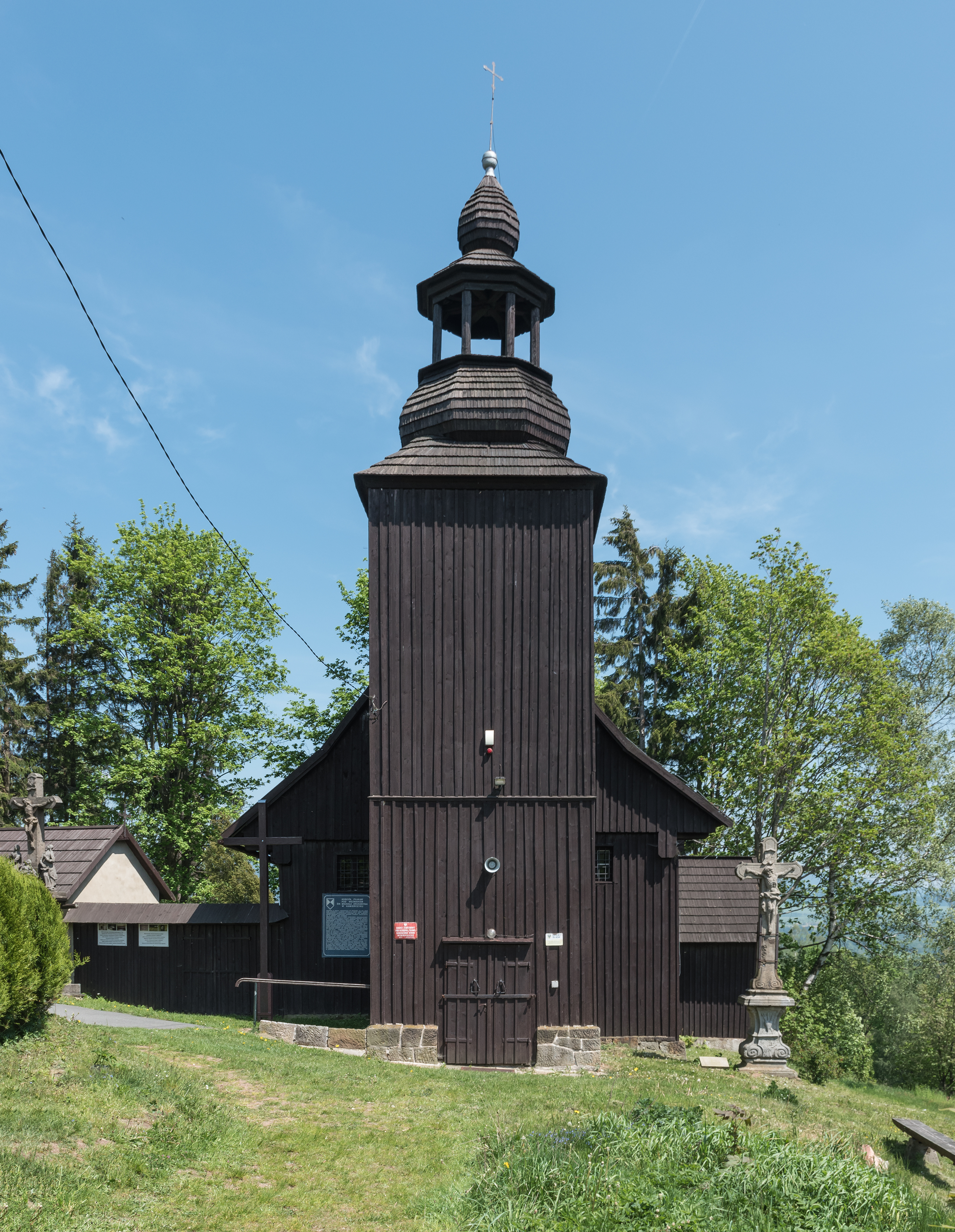 Saint Michael Archangel church in Kamieńczyk